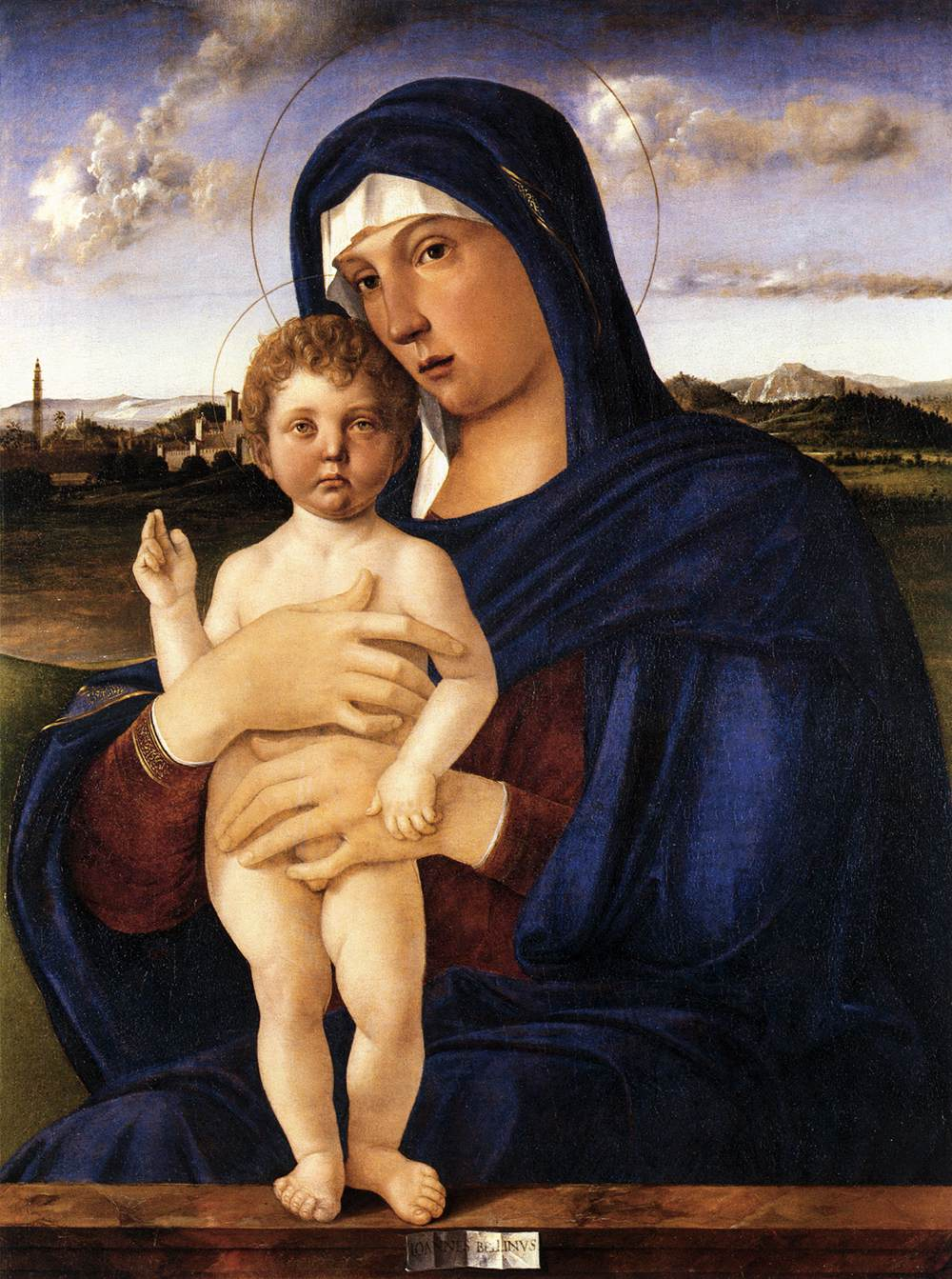 Madonna with Blessing Child